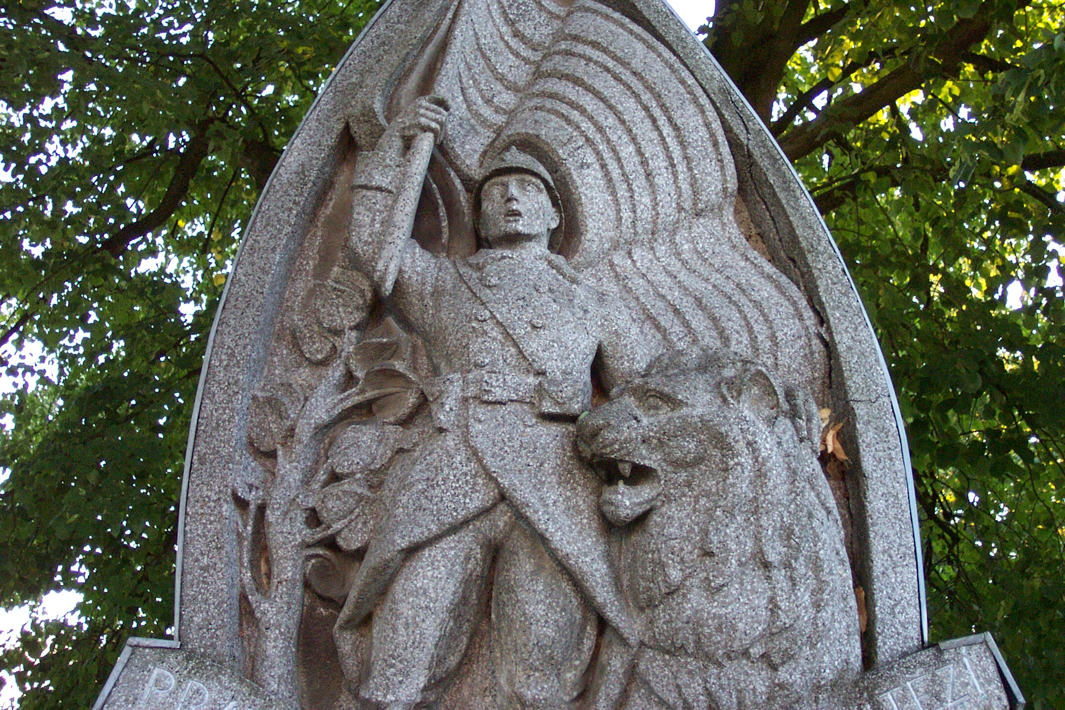 World War I memorial to dead soldirs from the village of Vojníkov - detail, Písek District, Czech Republic.